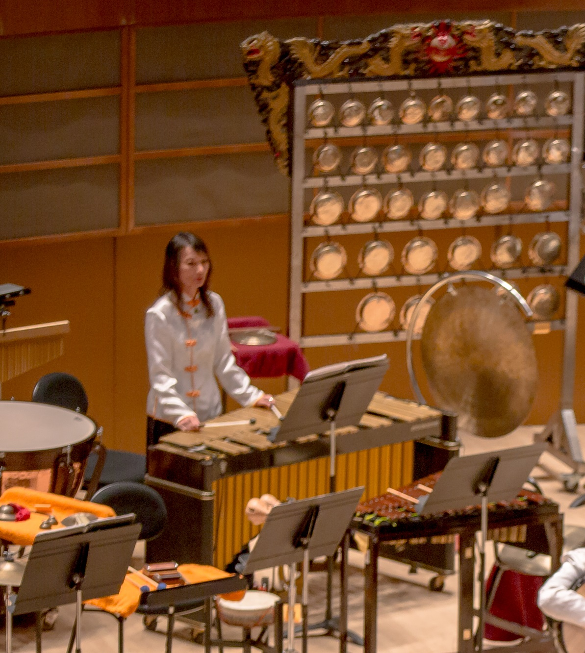 "Enchanting Rhythms of Chinese Music" concert in Edmonton - image trimmed to focus on percussion section